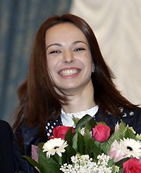 THE KREMLIN, MOSCOW. Awarding state decorations. Diana Vishneva, soloist with the State Academic Maryinsky Theatre, is awarded the honorary title of People\'s Artist of Russia.